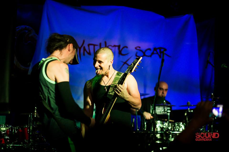 Valhalla,Močvara, Synthetic Scar